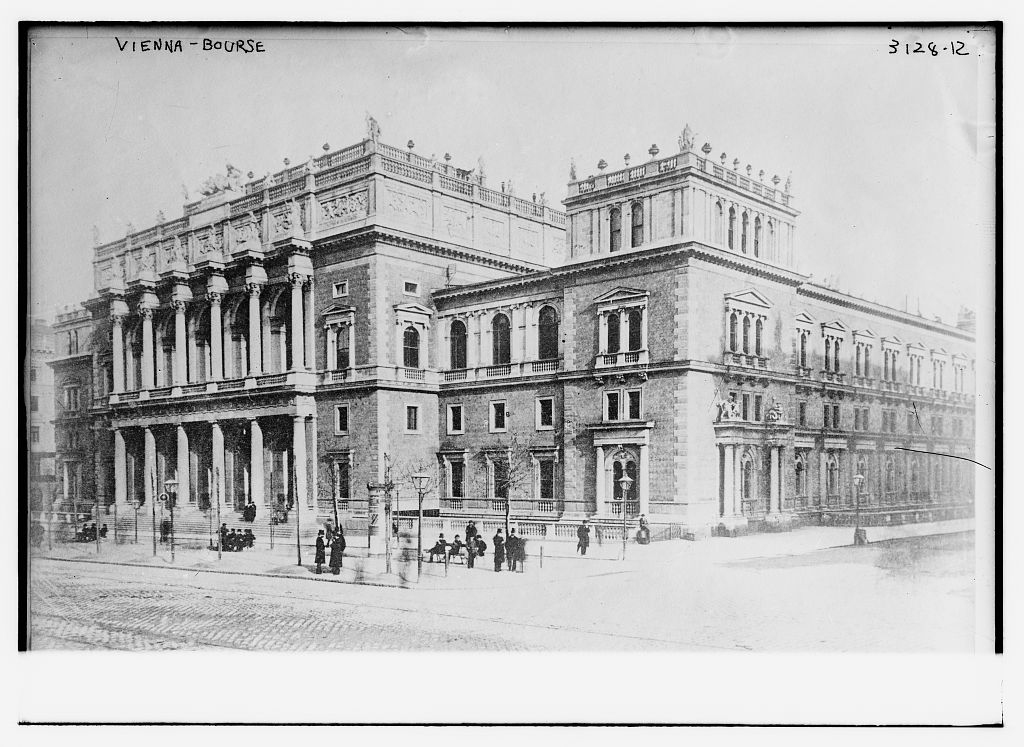 Wiener Börse in 1914 Bain News Service,, publisher. Vienna -- Bourse [between ca. 1910 and ca. 1915] 1 negative : glass ; 5 x 7 in. or smaller. Notes: Title from unverified data provided by the Bain News Service on the negatives or caption cards. Forms part of: George Grantham Bain Collection (Library of Congress). Format: Glass negatives. Repository: Library of Congress, Prints and Photographs Division, Washington, D.C. 20540 USA, General information about the Bain Collection is available at Persistent URL: Call Number: LC-B2- 3128-12